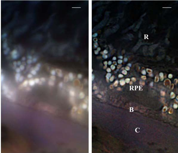 Investigation of AMD,macular degeneration a medical condition which usually affects older adults and results in a loss of vision in the center of the visual field (the macula) because of damage to the retina macular degeneration. Sections from human eye tissue were analyzed with Structured Illumination Microscopy (SMI)/ Optical nanoscopy using a specially designed Super Resolution Microscope setup: LSI-TIRF as a total internal reflection interferometer with laterally structured illumination. This SMI technique allowed to acquire light-optical images of autofluorophore distributions in the tissue with previously unmatched optical resolution. Use of three different excitation wavelengths (488, 568 and 647 nm), enables to gather spectral information about the autofluorescence signal. Detailed Image description: Overview image. The SMI image (right) shows more details and less out of focus light than the widefield image (left). The Bruch membrane (B) is located between the choroid (C) and the retinal pigment epithelium (RPE). On the top of the image endings of retinal rod cells (R) can be seen. The scale bar is 2�m. Reference: Best G, Amberger R, Baddeley D, Ach T, Dithmar S, Heintzmann R and Cremer C (2011). Structured illumination microscopy of autofluorescent aggregations in human tissue. Micron, 42, 330-335.